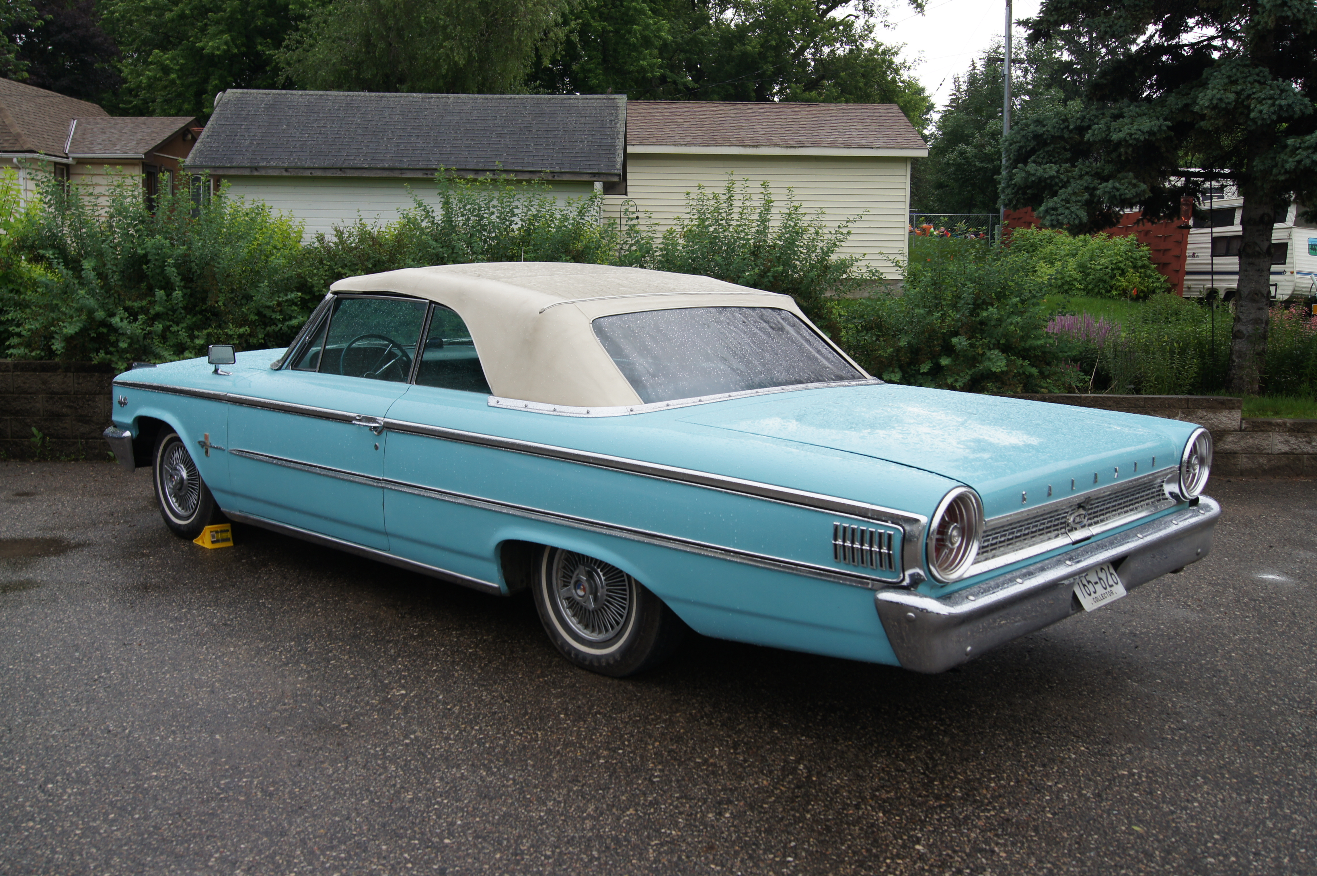 I bought my 2005 Dodge Magnum RT from Walser Chrysler Dodge in Hopkins. It came with free oil changes for life. I used to have relatives near the dealership that I would visit. They have all moved away, so now I just try to coordinate some car spotting for the trip. More Car Pictures